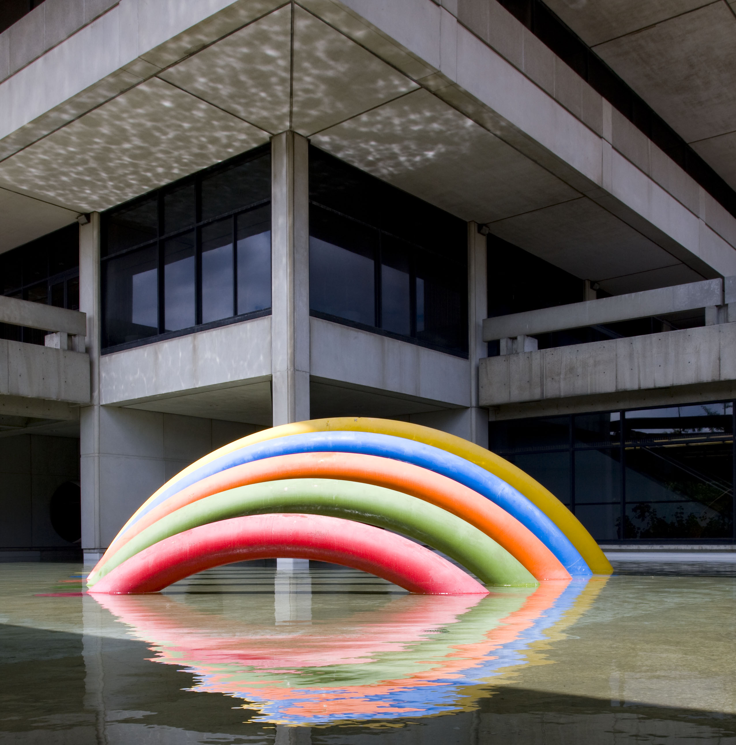 Outdoor art display outside Scott Library Rainbow Piece (1972) by Hugh LeRoy Location: York University, Toronto, Ontario, Canada Photograph By: Andrei Sedoff